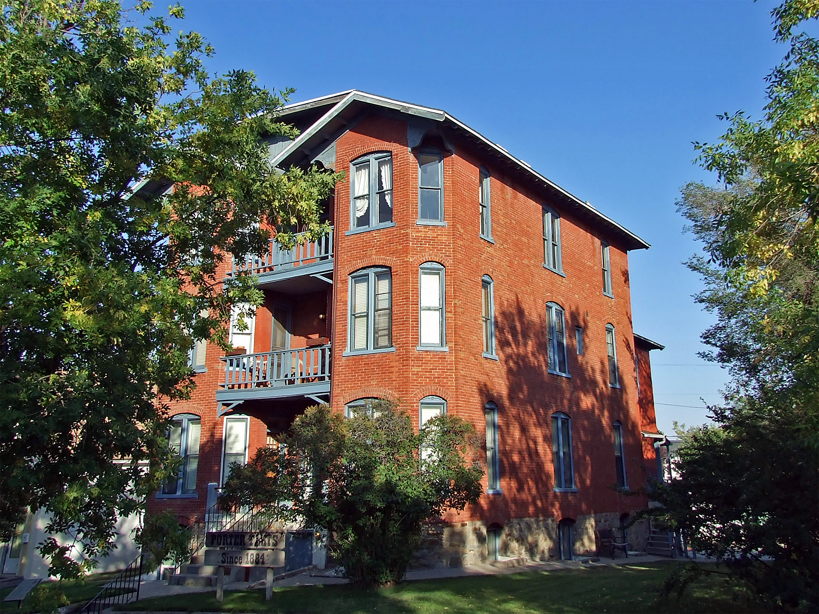 Porter Flats Apartments The Northern Pacific finally extended its tracks to Helena in 1883, and the town became increasingly cosmopolitan. Pioneer real estate developer James Porter constructed this very stylish apartment building in 1884, the first of many multifamily dwellings built to accommodate a rapidly growing population. The building demonstrates the construction techniques used and the high quality achieved in the bustling, booming Helena of the 1880s. Twin bays, a central entry, wide eaves, and hipped rooflines reflect the Italianate style while a well-crafted stone foundation, red brick veneer, and tall arched windows mirror local contemporary commercial construction. Fancy floral-designed vergeboards that originally adorned the gables, ornately carved window heads, and decorative brackets reflect the growing availability of prefabricated building materials. The well-appointed building allowed fashionable yet affordable living, with each of the six units boasting a kitchen, bathroom, bedroom, living room, and dining room. Interior elegance remains today in the decorative newel post, balusters, and carved trim with corner rosettes. First tenants included a doctor, a lawyer, a minister, a mining superintendent, and the five Misses Nagel, whose “private dining room … in Porter’s Flat” was one of Helena’s favorite eating establishments. Severely damaged during the 1935 earthquakes and condemned in 1988, Porter Flats was rehabilitated between 1989 and 1991 by its new owner. Today this neighborhood treasure is an integral thread in the historic fabric of early Helena.